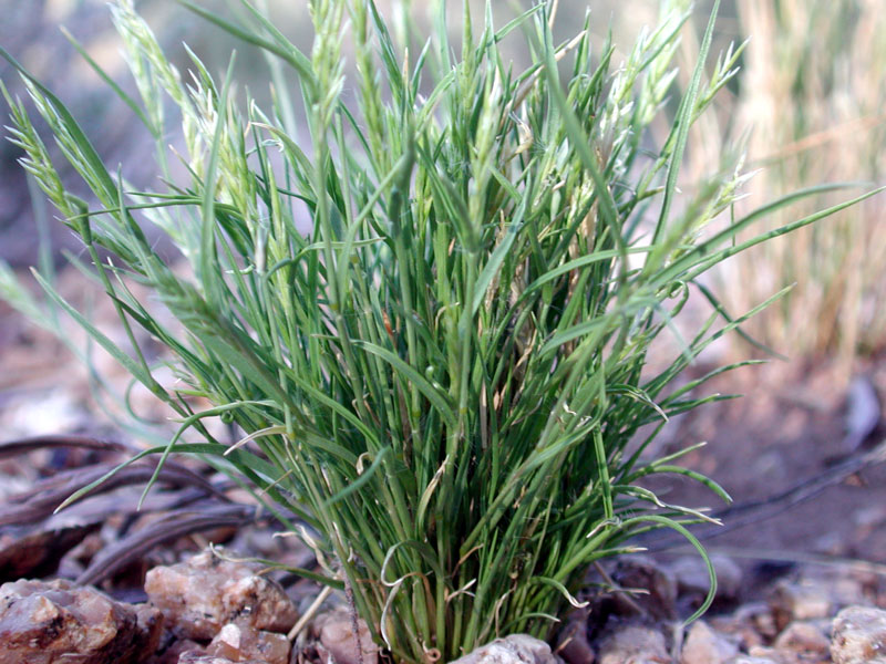 Schismus barbatus, Mediterranean Grass. Phoenix, Arizona, USA.